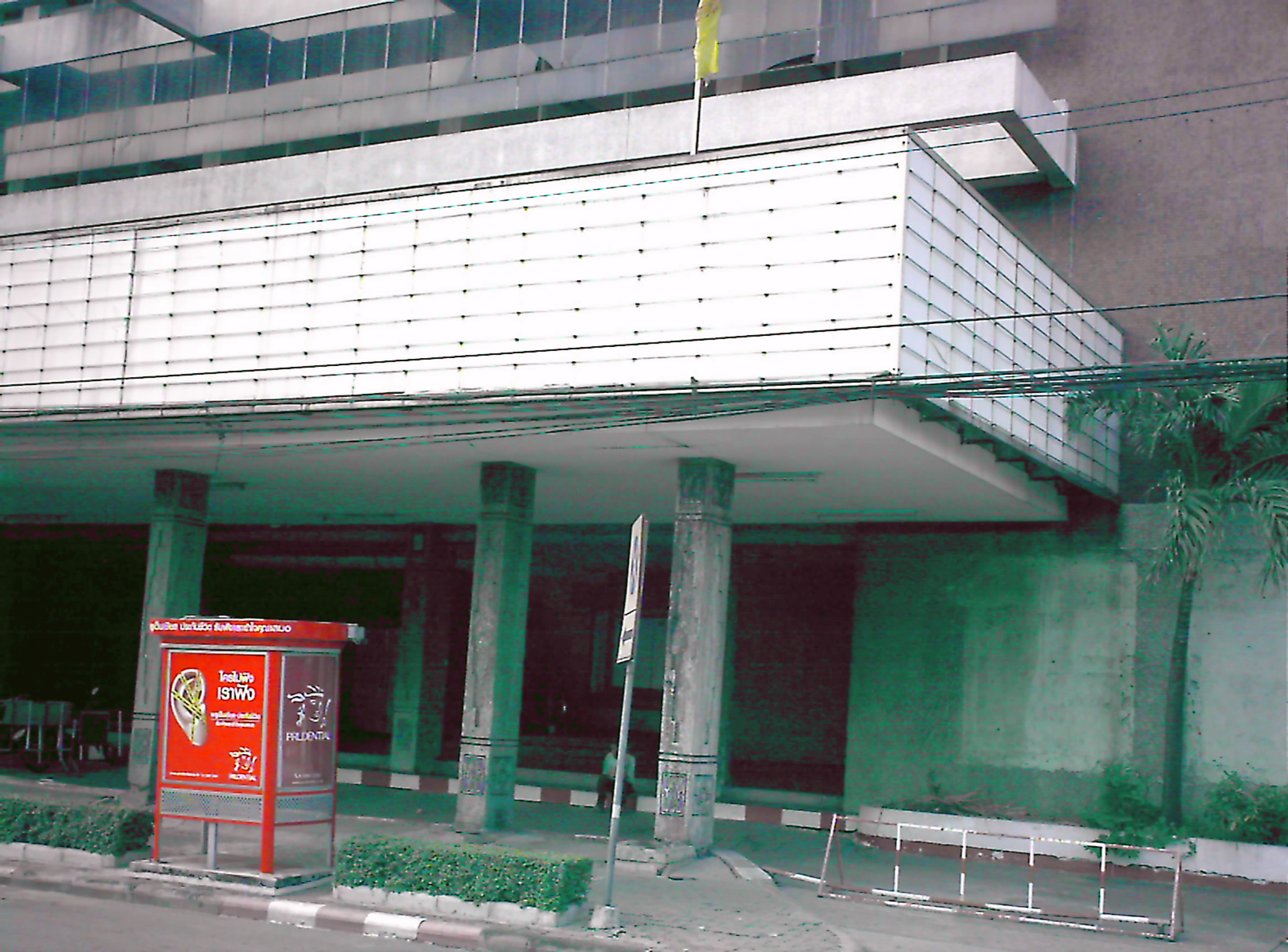 Main Gate, Rama Theatre Building, Rama 4 Road, Bangkok, Thailand 中文（香港）: 泰國，曼谷，拍喃四路，拉瑪戲院的大門。